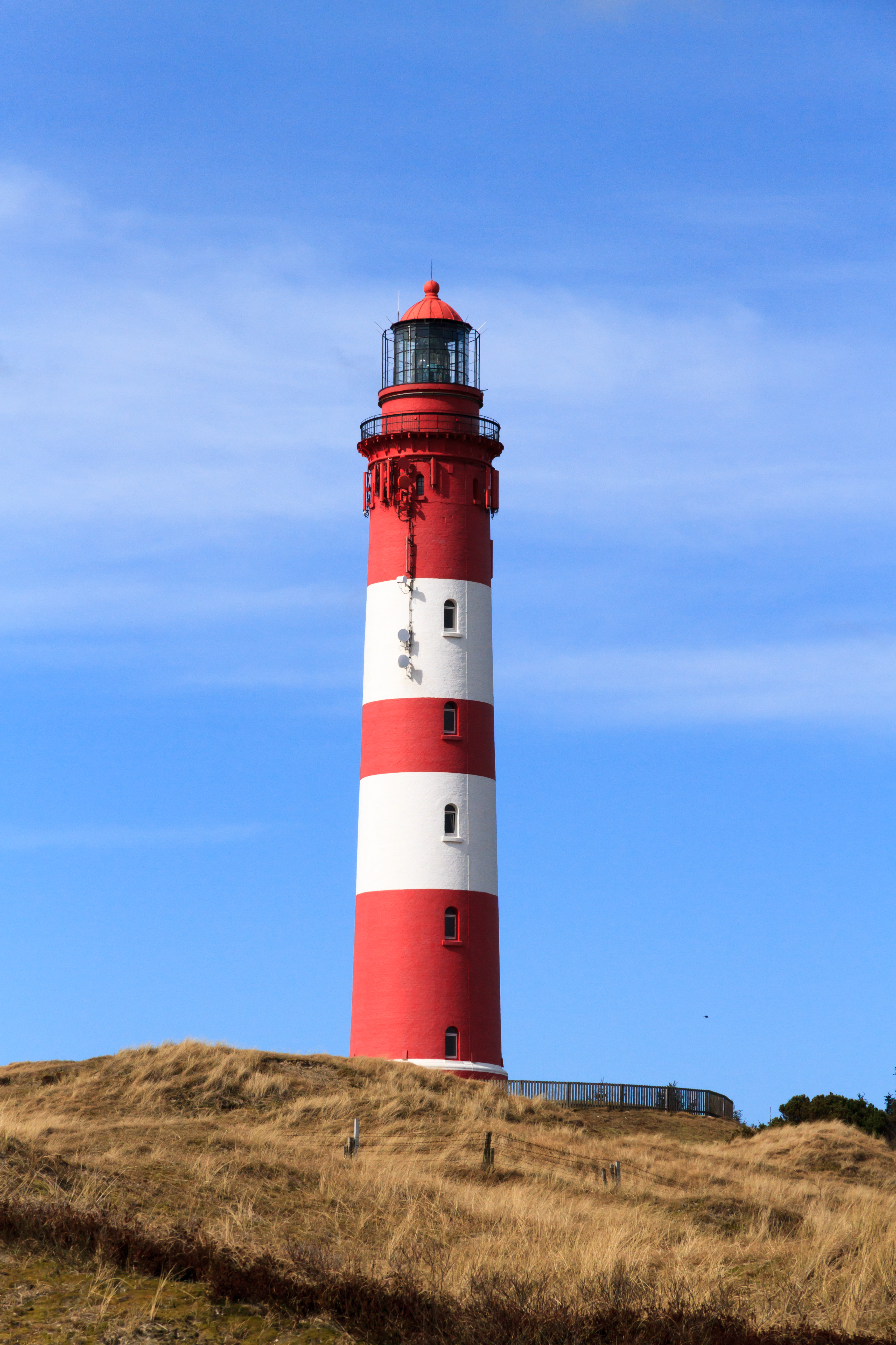 Lighthouse Amrum